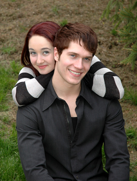 Sarah Brannen, with permission of photographer